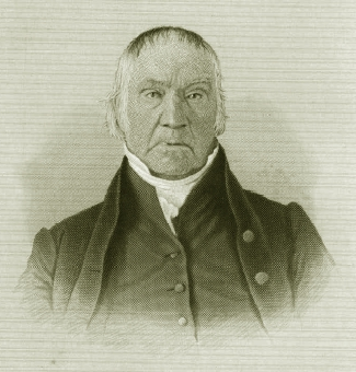 Oliver Chace (1759-1852) mill owner, Swansea, Massachusetts